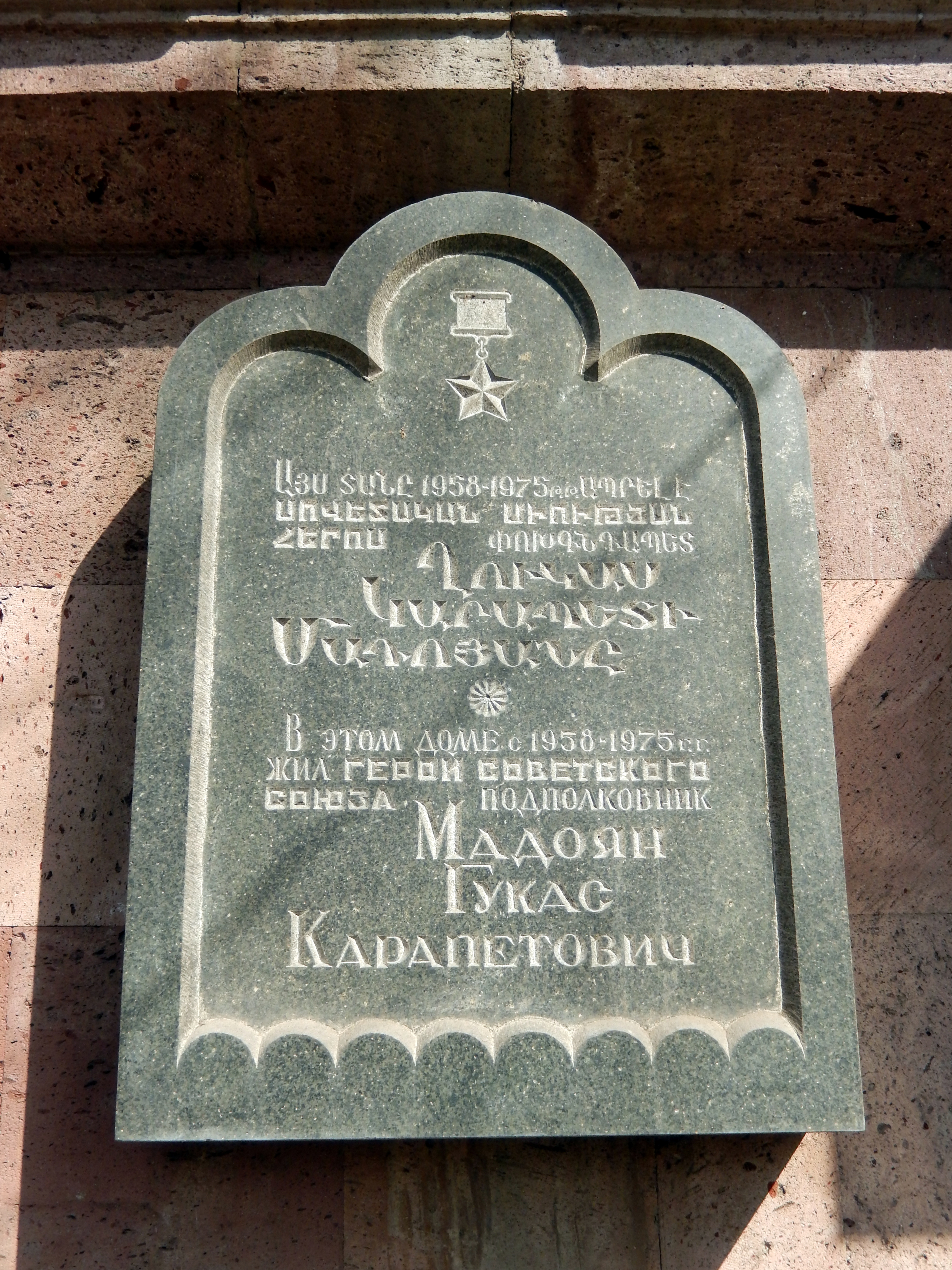 Ղուկաս Մադոյանի հուշատախտկը Երևանի Իսահակյան 18 հասցեում